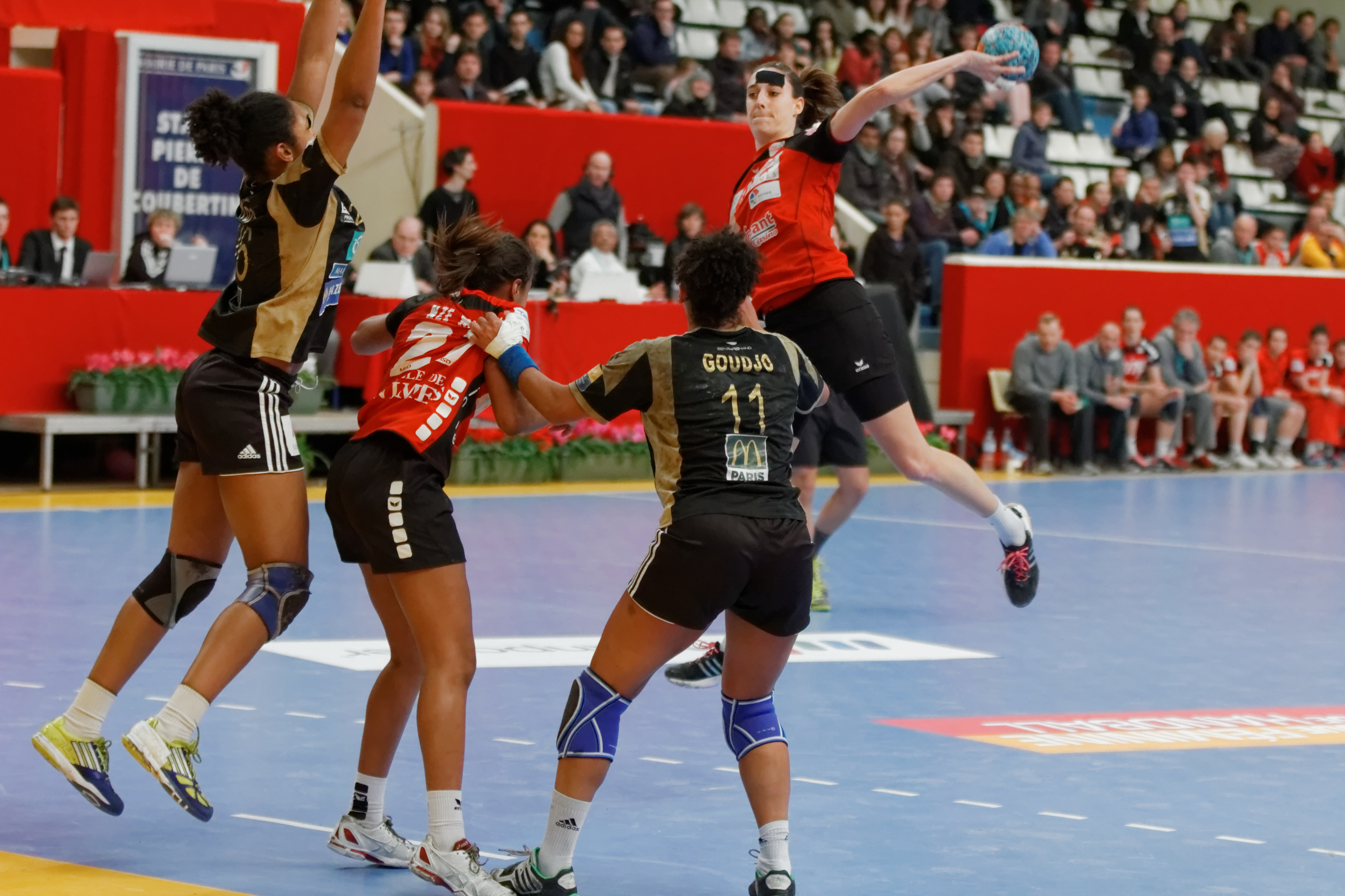 Final of the Women's handball French cup 2013. Handball Cercle Nîmes vs Issy Paris Hand, stadium Pierre-de-Coubertin at Paris.